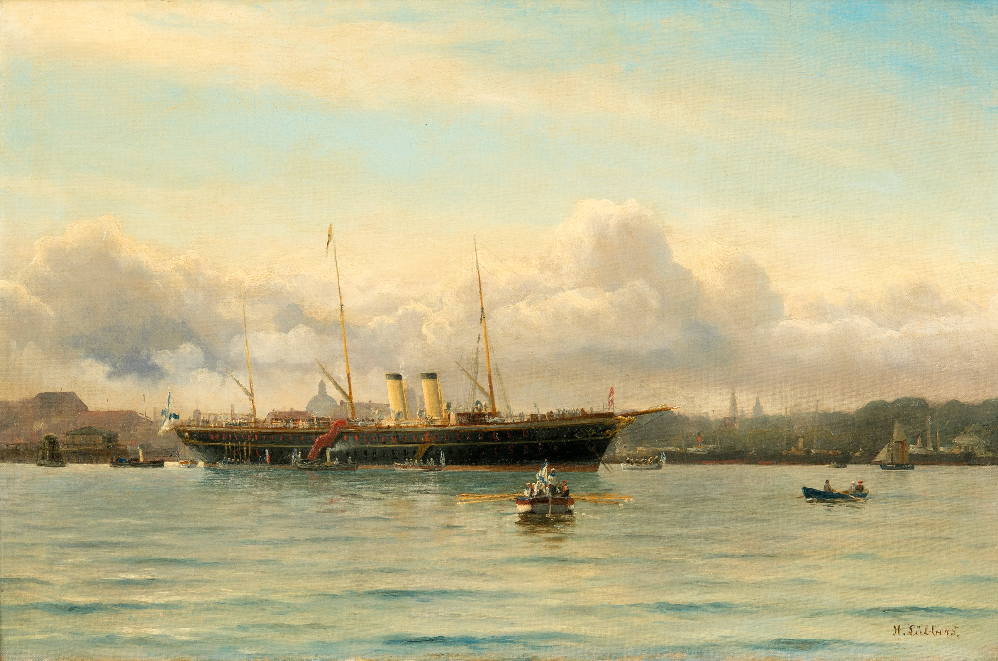 Holger Lübbers: "The Russian Imperial Yacht Polar Star in the Harbour of Copenhagen". Oil on canvas. 42,5 × 63 cm.